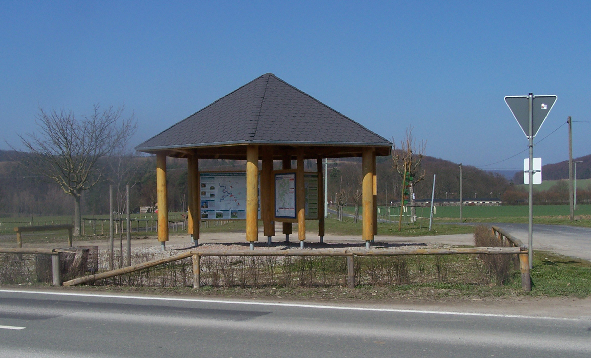 Near Mihla, Info-point.